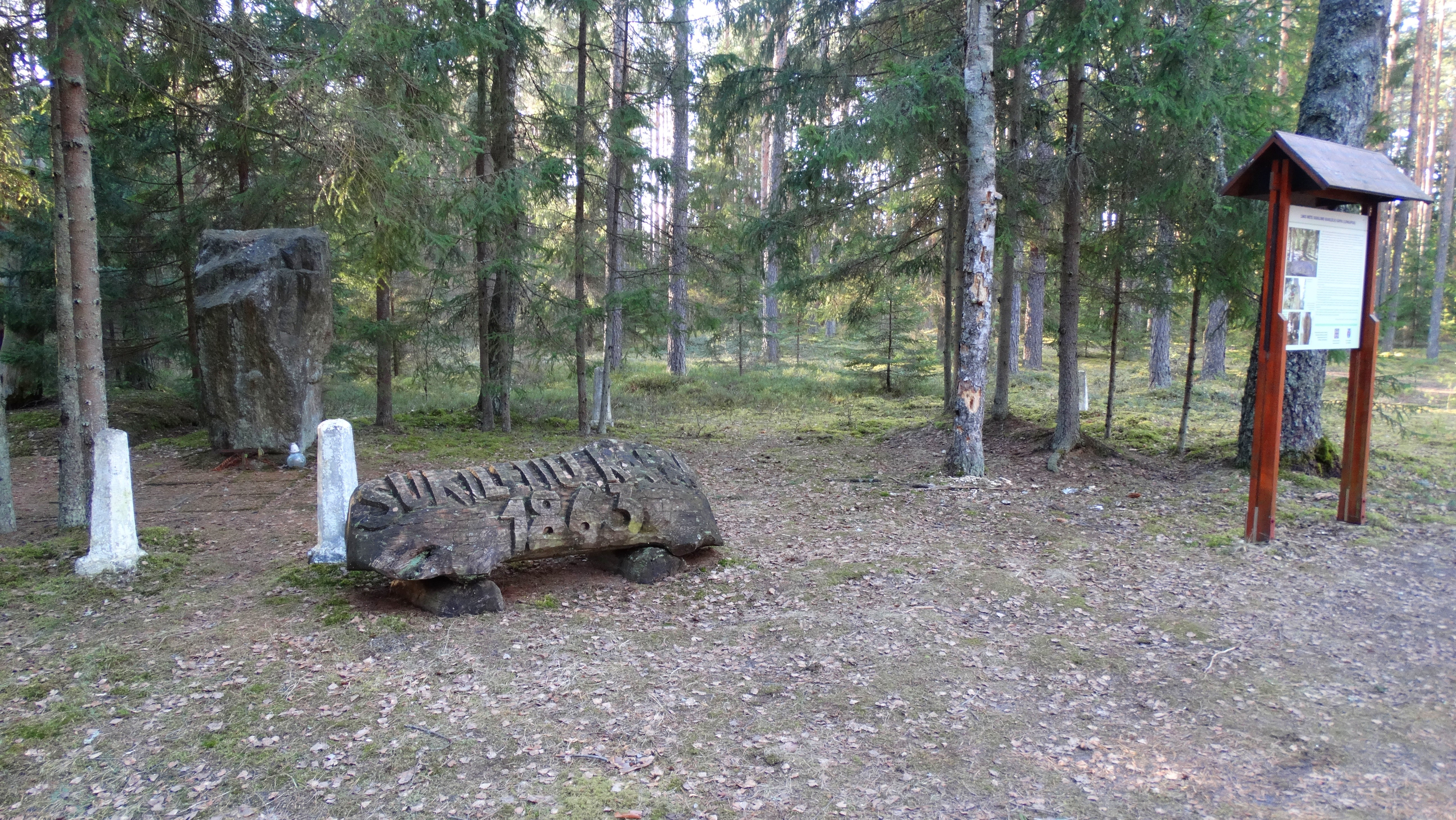 Memorial to 1863 uprising, Kuras forest, Kaunas district, Lithuania